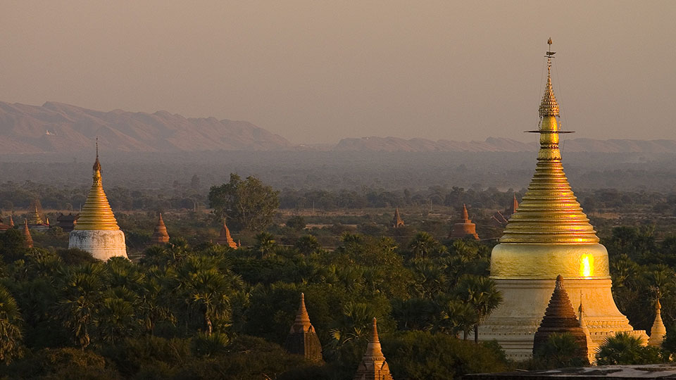 The 12th-century golden Myazedi Pagoda (right) at Bagan, Myanmar (Burma)